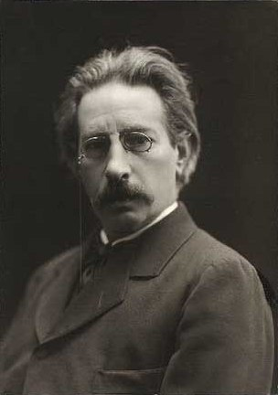 Victor Emanuel Bendix (1851-1926), Danish composer and pianist